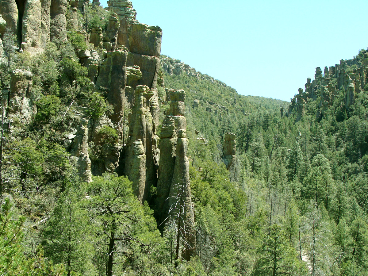 Chiricahua National Monument, with hoodoo (geology) rock formations, and pine forests.